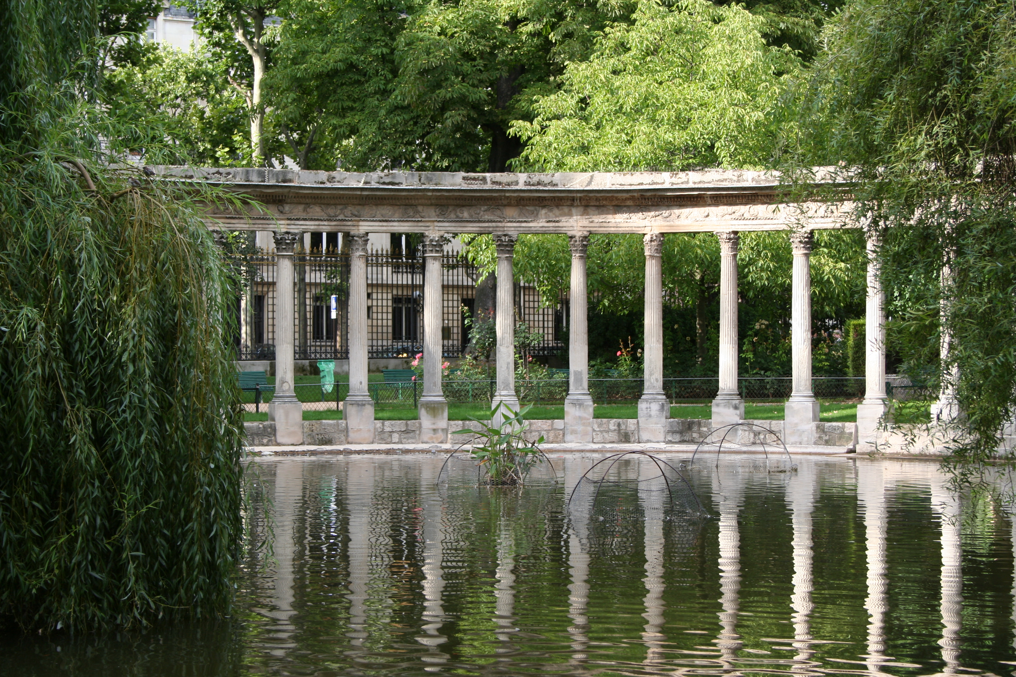 Parc Monceau (Paris, France)